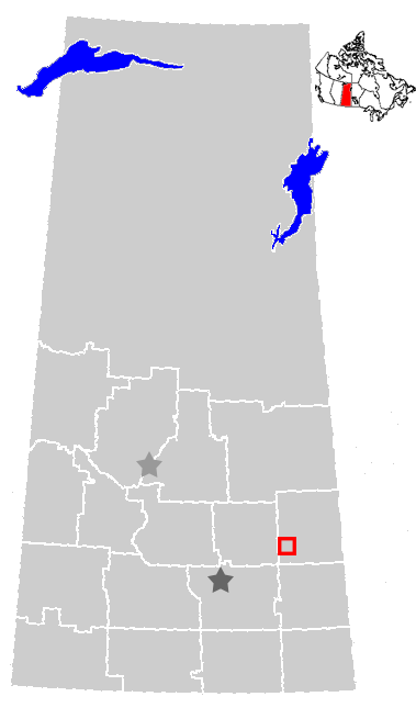 Location of Melville, Saskatchewan